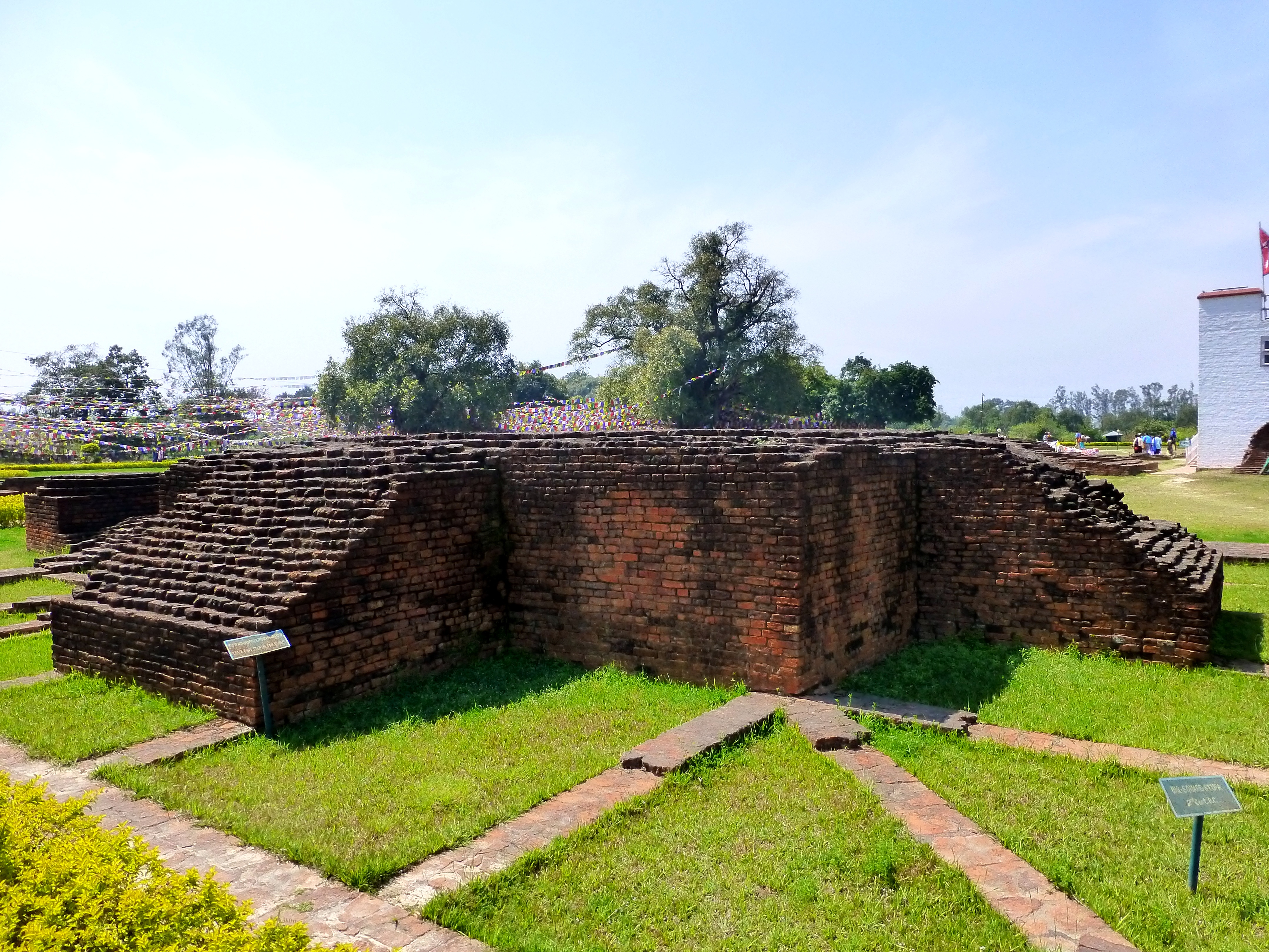 09 Excavated Buildings, Lumbini. Photograph from Lumbini in Nepal taken by Anandajoti.